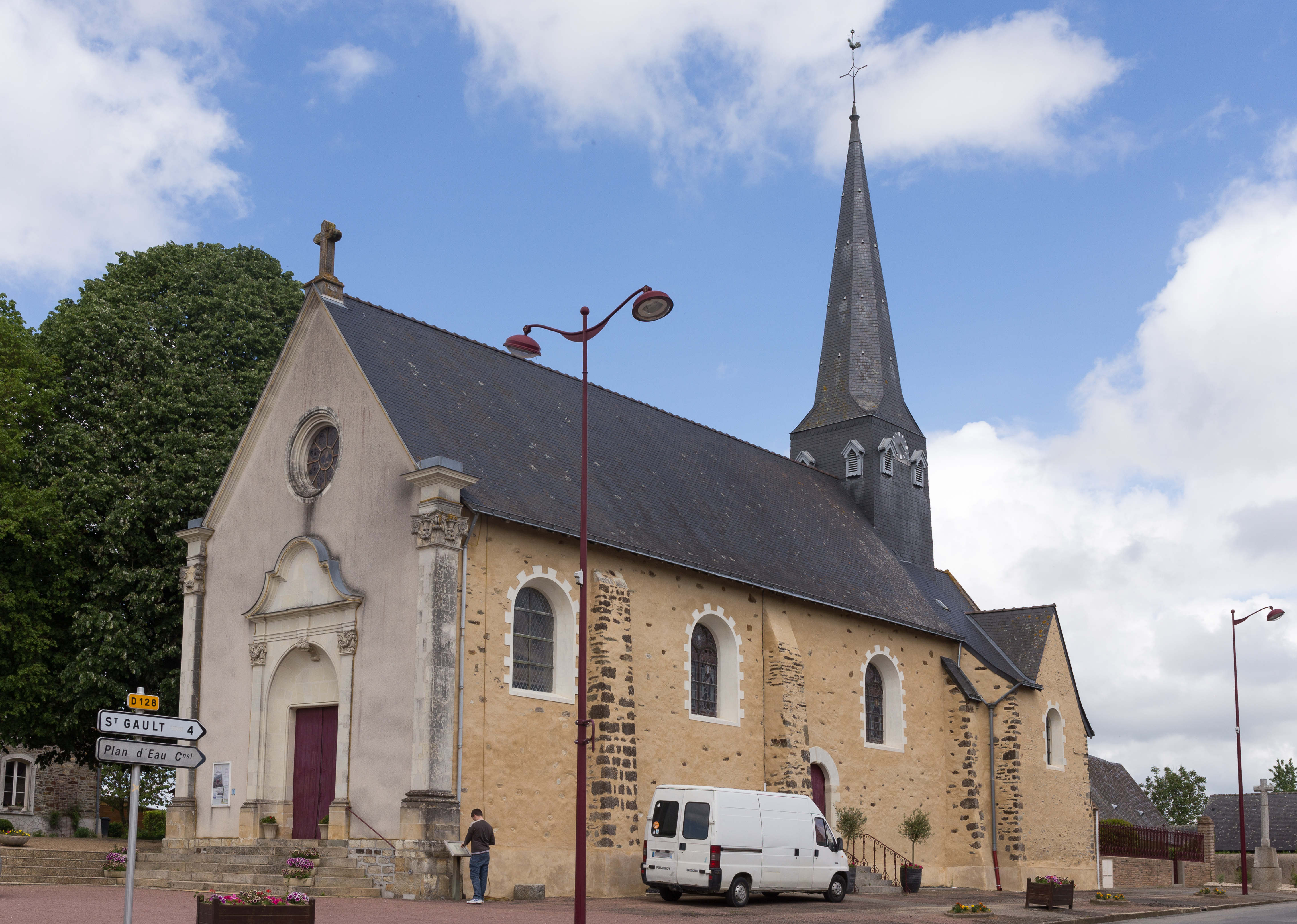 Church of Peuton.